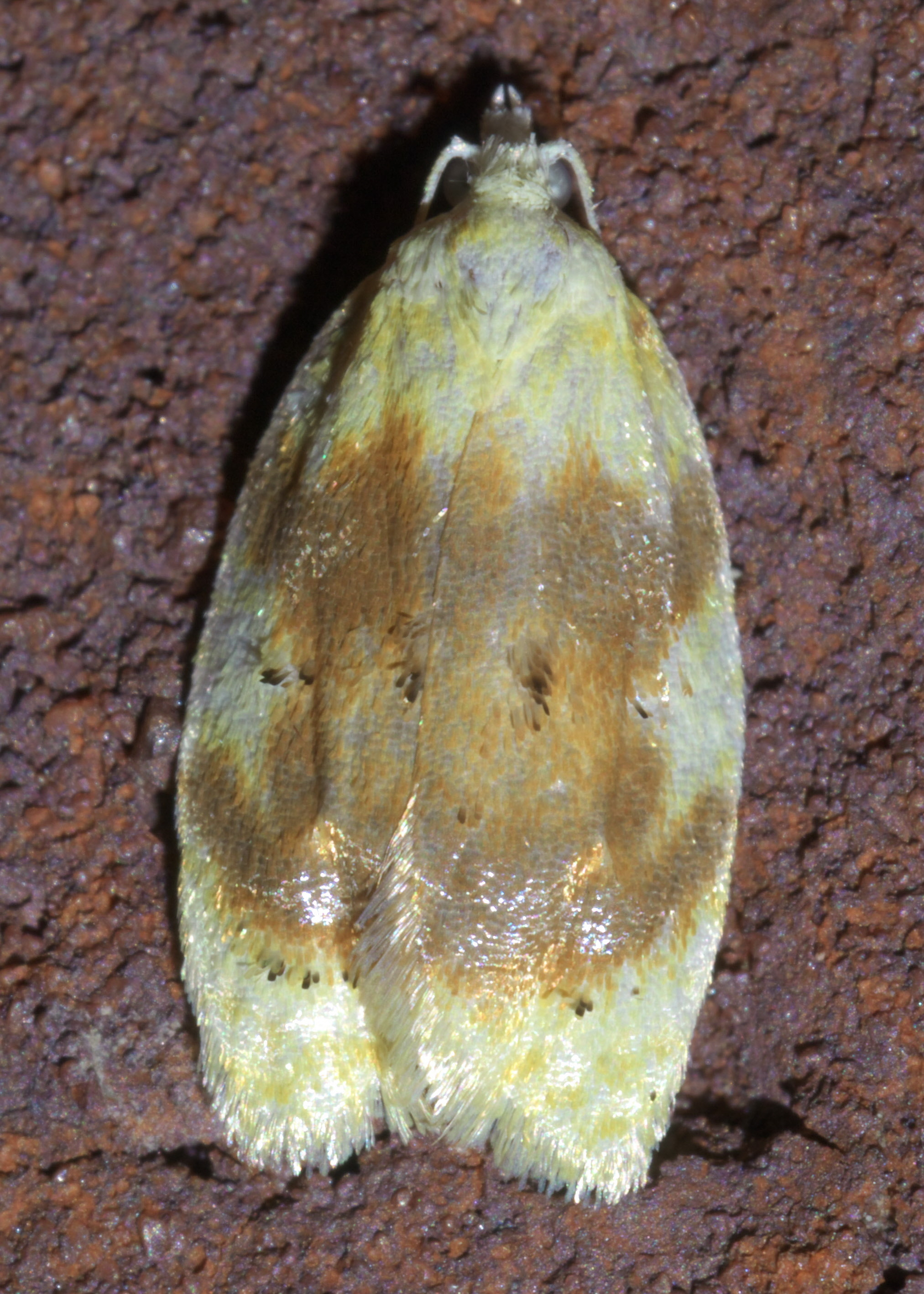 Acleris semipurpurana, oak leaftier moth, Size: 8.7 mm, ID Confidence: 88